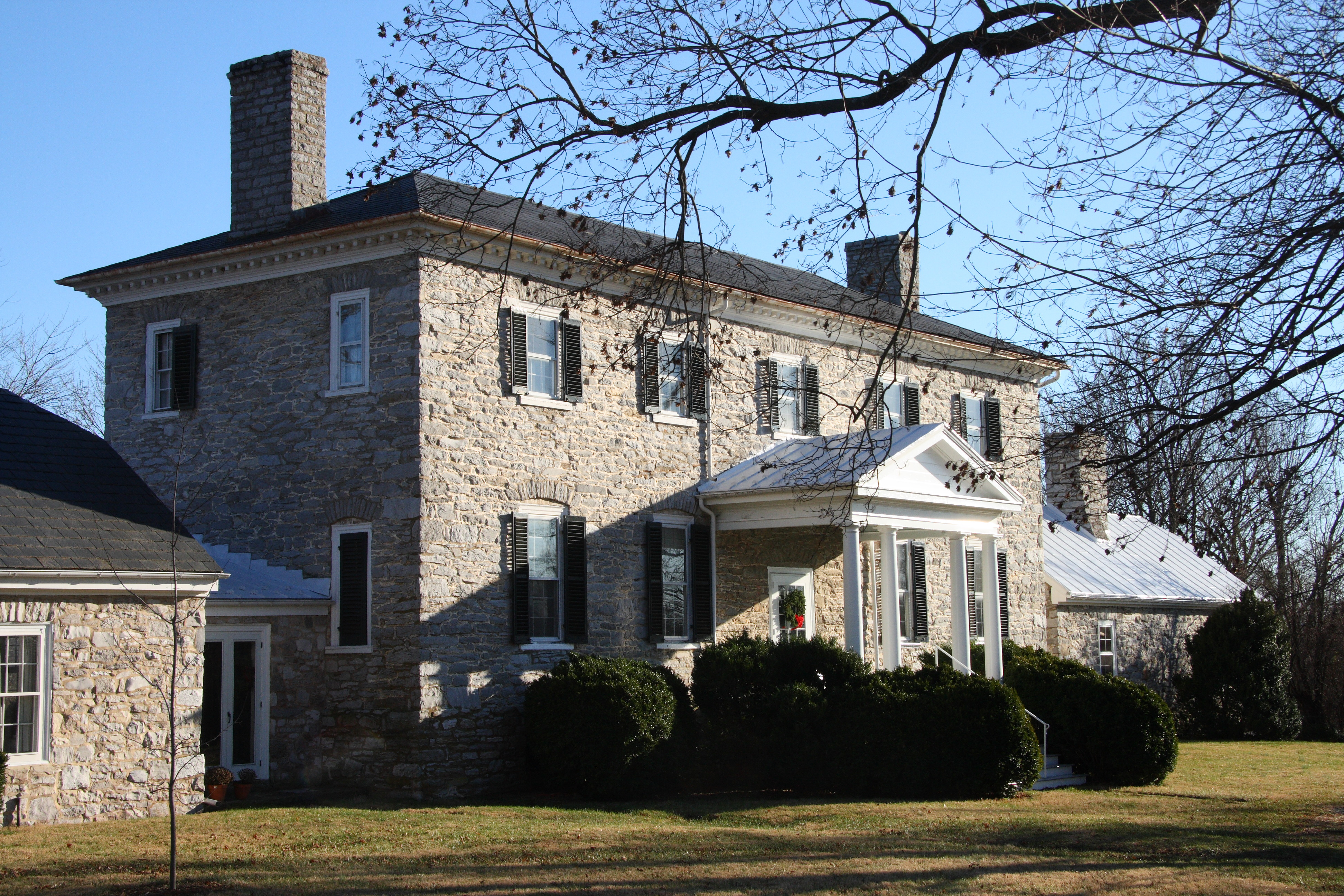 Harewood, near Charles Town, West Virginia, USA